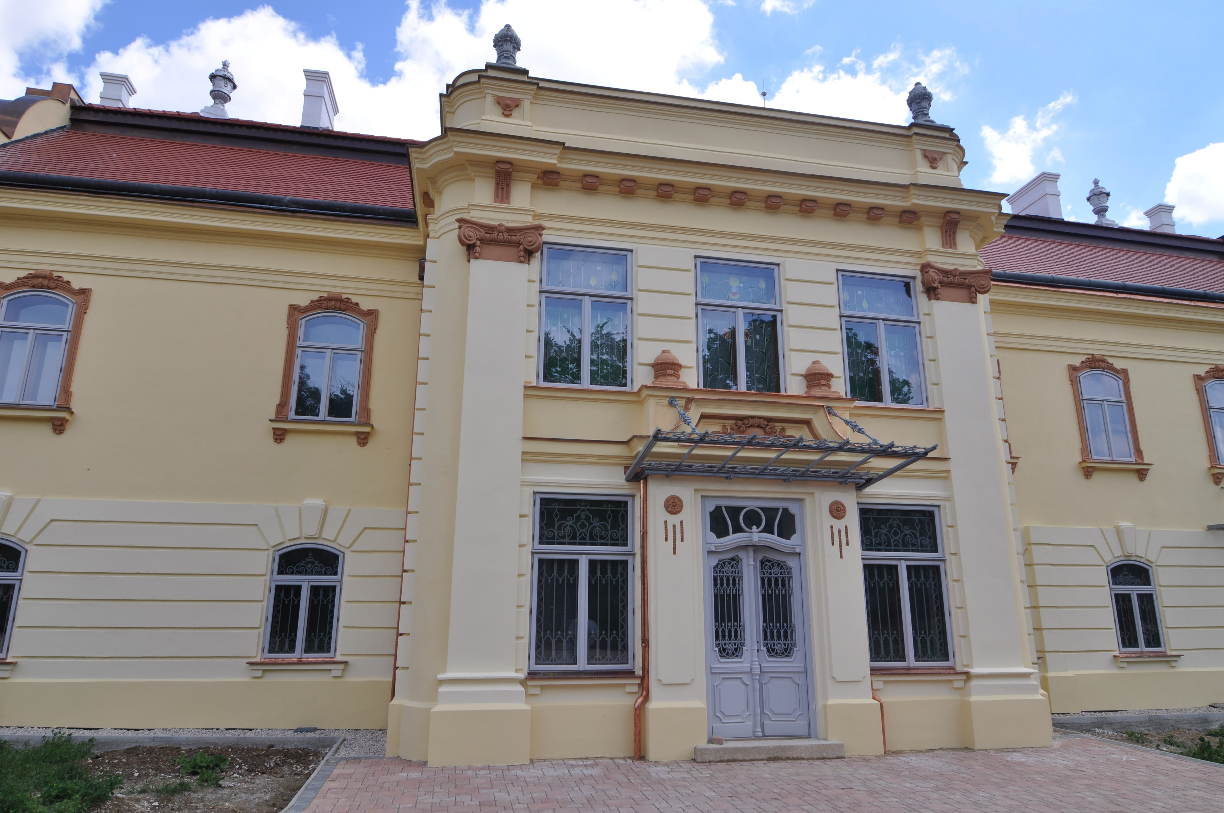 Sasinkovo castle main input